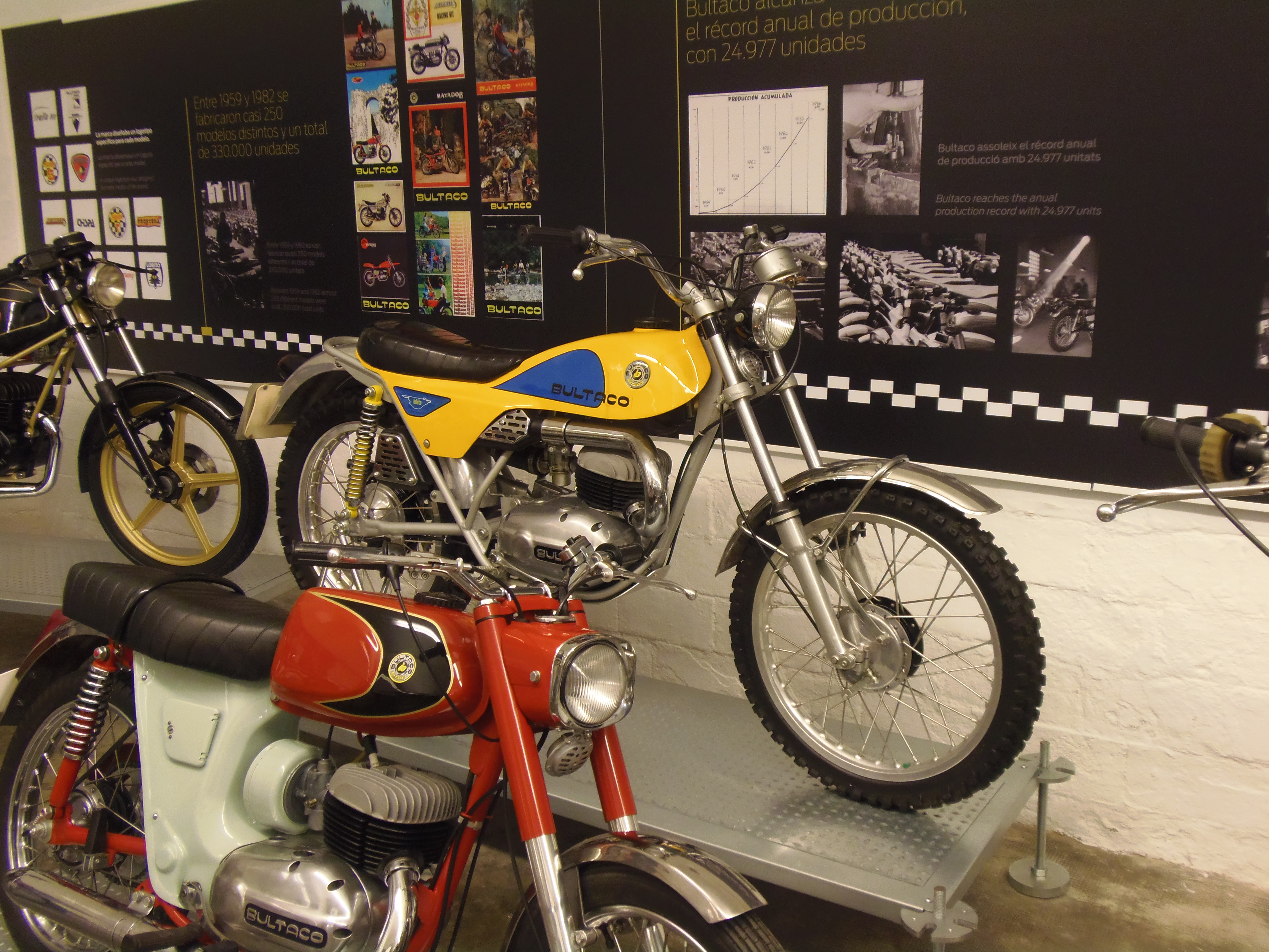 In yellow: Bultaco Lobito MK6, 74 cc, 1973. In red: Bultaco Junior GT2, 74 cc, 1973.